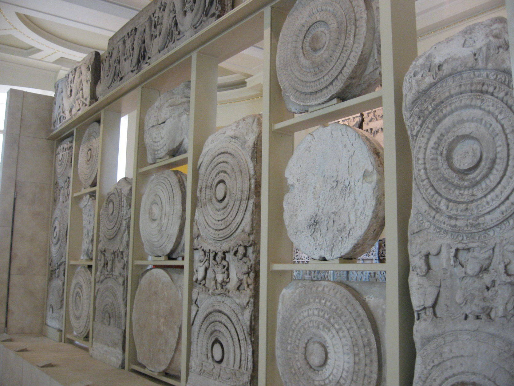 Photo taken at the British Museum - Asian Gallery - Amravati